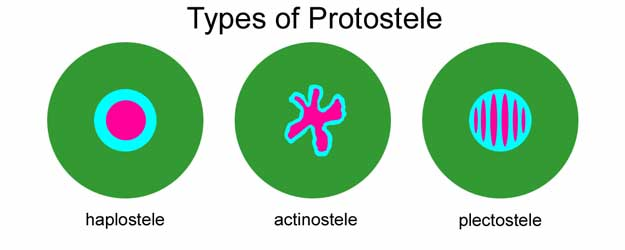 Stelar arrangements among plants with protosteles. Diagram created by B. R. Speer on 20 Nov 2005 using Photoshop Elements.